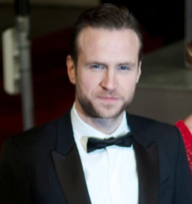 Rafe Spall and wife Elize Du Toit